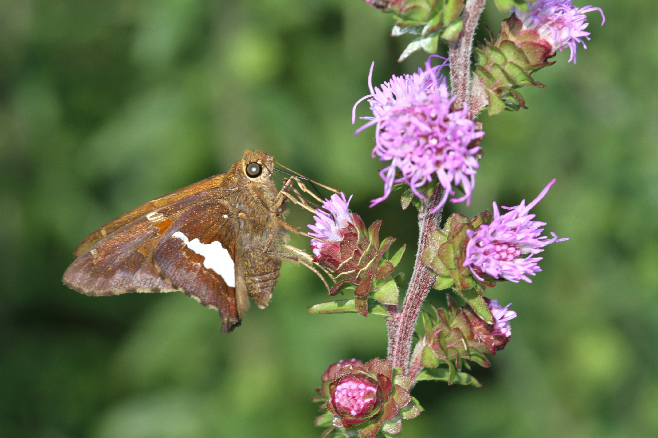 Another commonly seen skipper is the Silver Spotted Skipper, seen here nectaring from Liatris. To see more shots of bugs on Liatris you can watch this slide show which lasts 2 mins and 40 seconds. Wish there was a way to link music to the flickr slide shows.